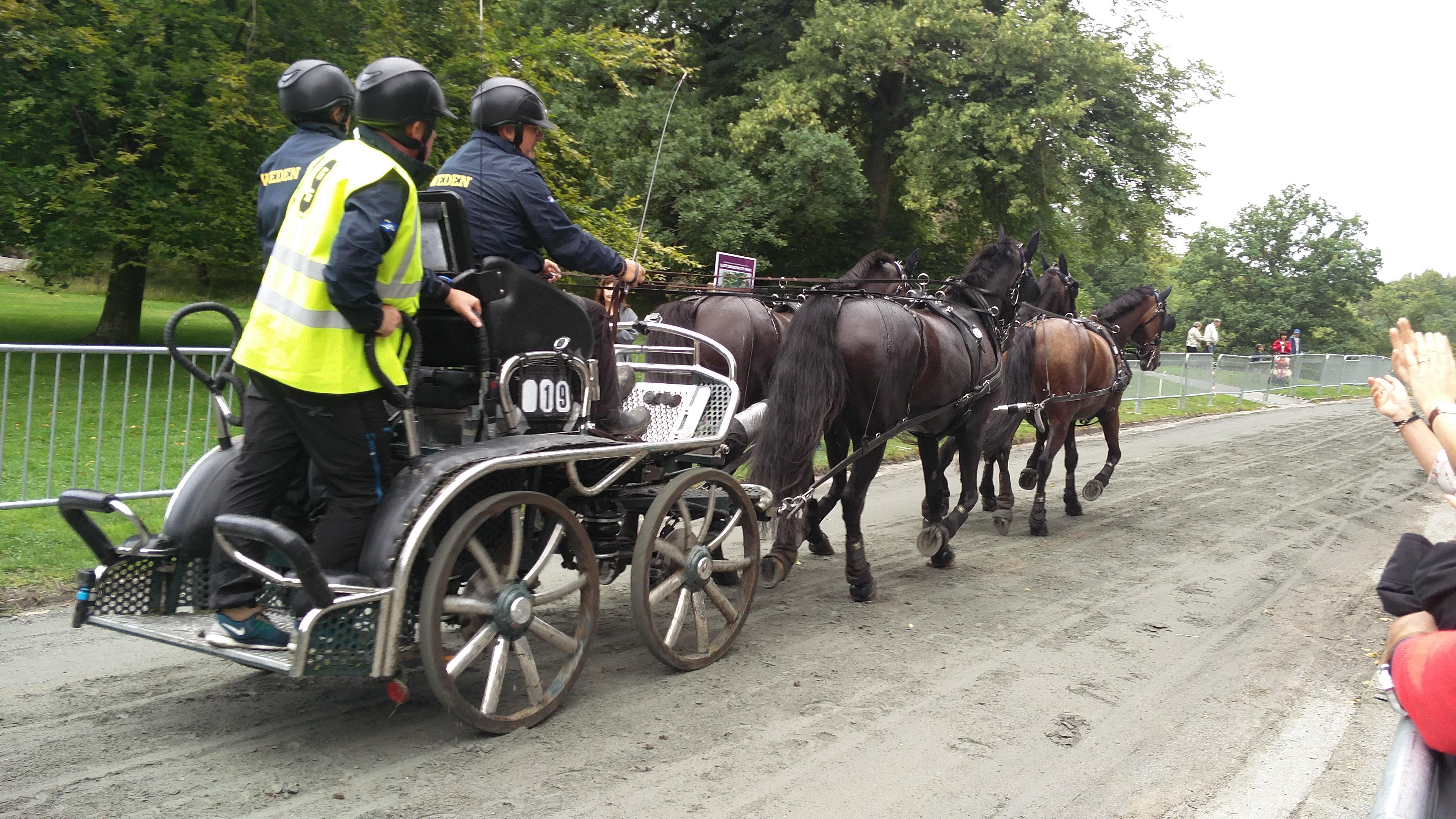 Horse carriage at FEI European Dressage Championship held in Slottskogen, Gothenburg, Sweden on 26 August 2017.